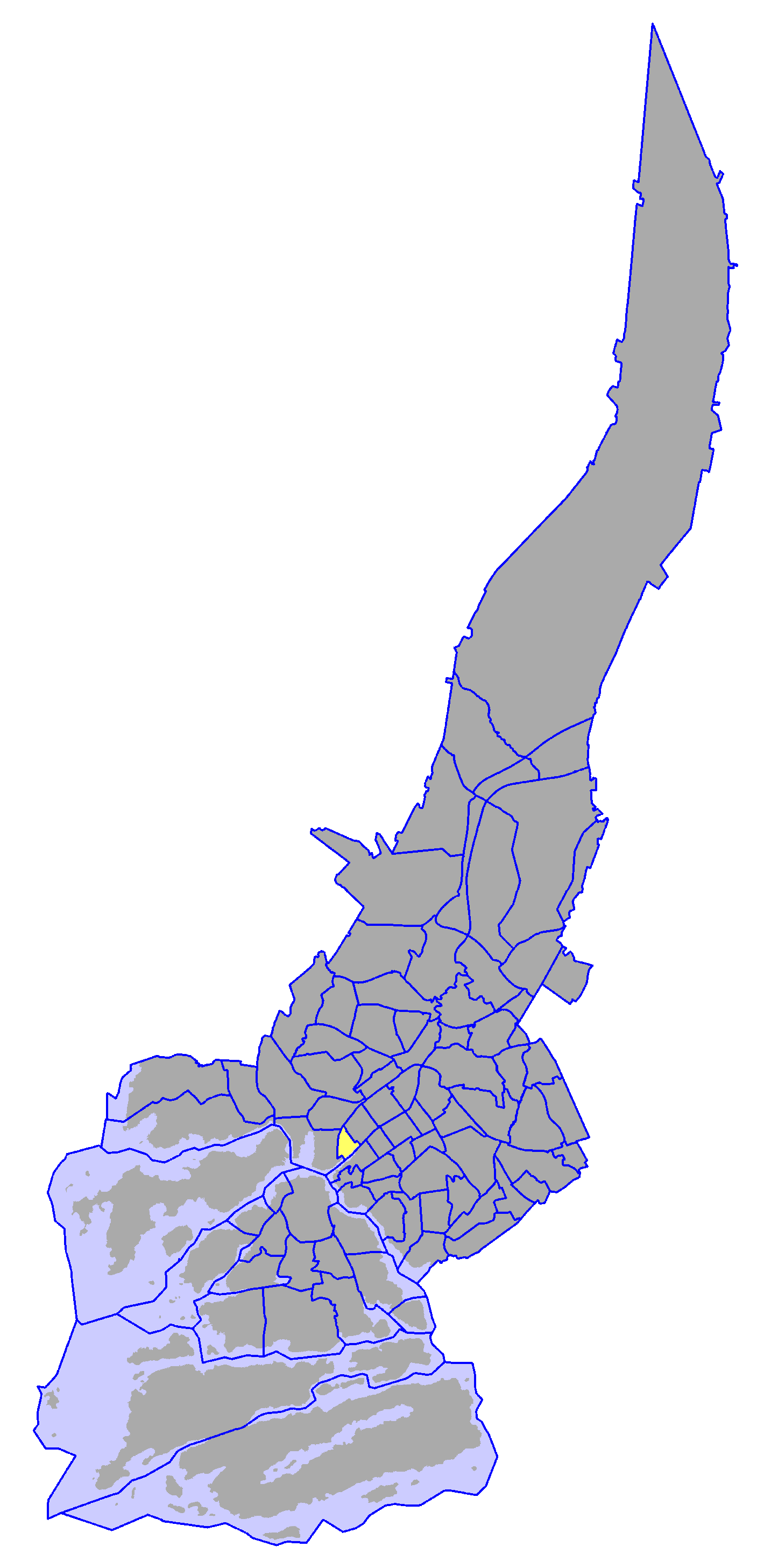 District of Länsiranta, in Turku